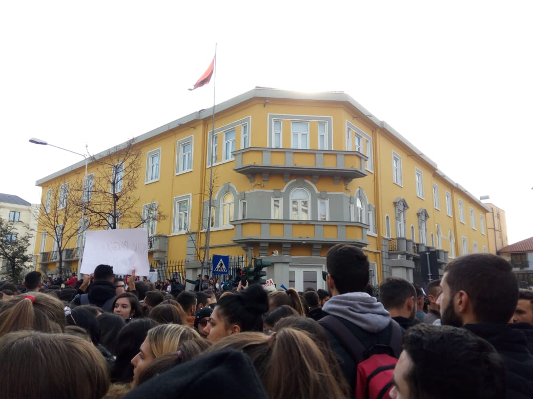 Student protests 2018 in Tirana. Protesters in front of the Ministry of Education and Youth